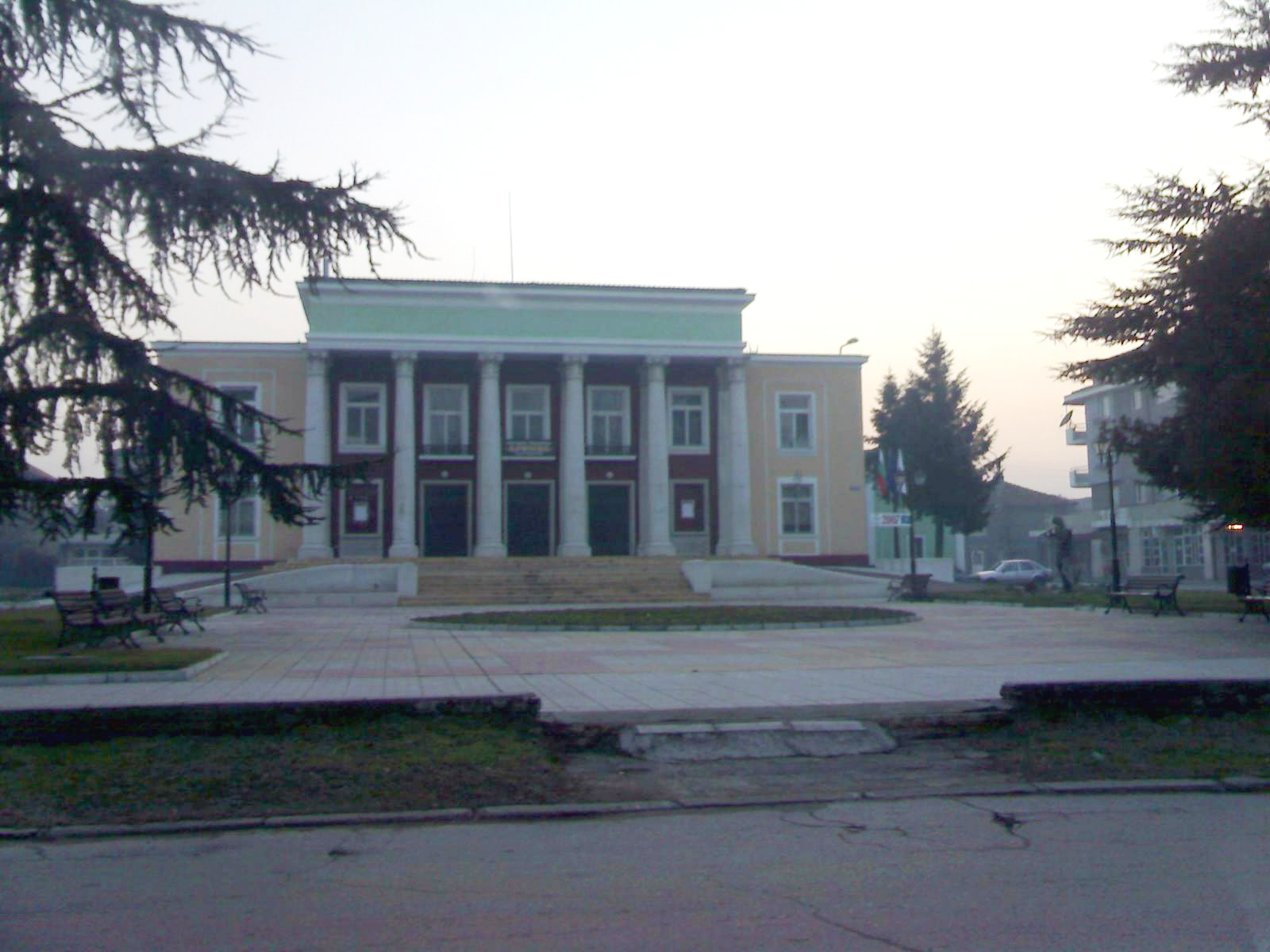 The culture house in Harmanli, Bulgaria